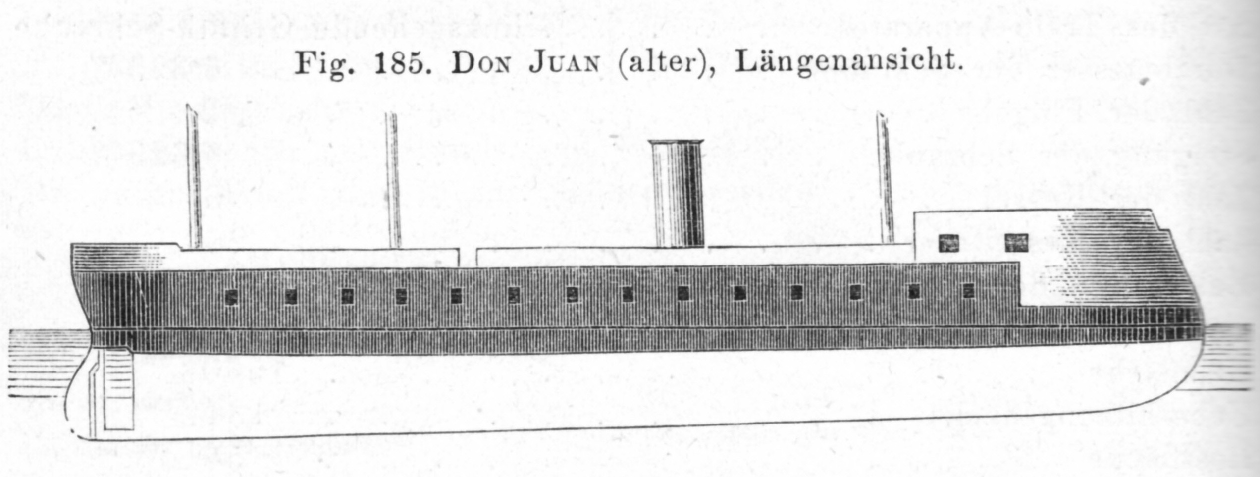 The Austro-Hungarian ironclad Don Juan d'Austria, one of the three Kaiser Max ironclads, commissioned in 1863.